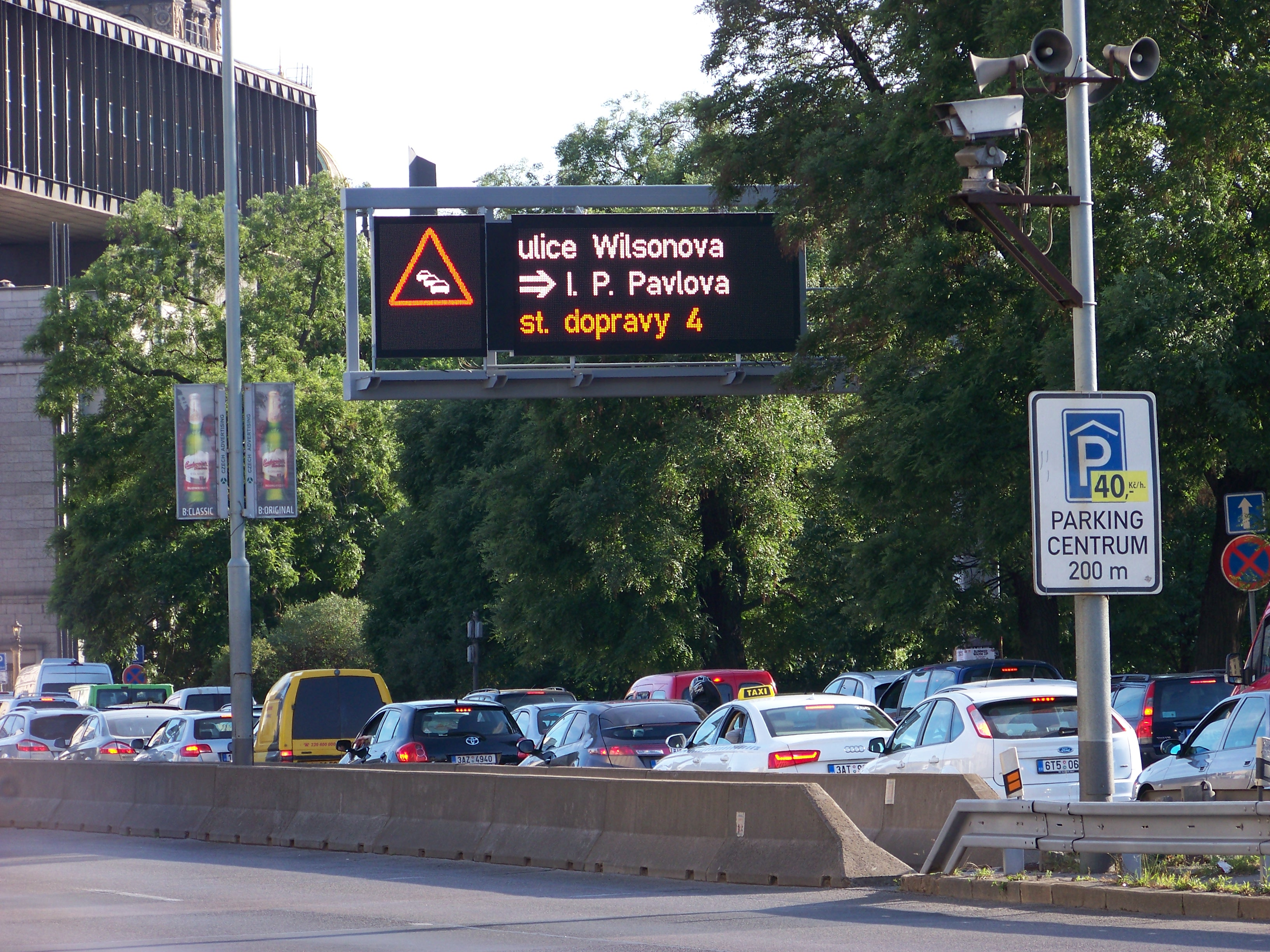 Prague-Vinohrady and New Town, Czech Republic. Wilsonova street, a traffic congestion.